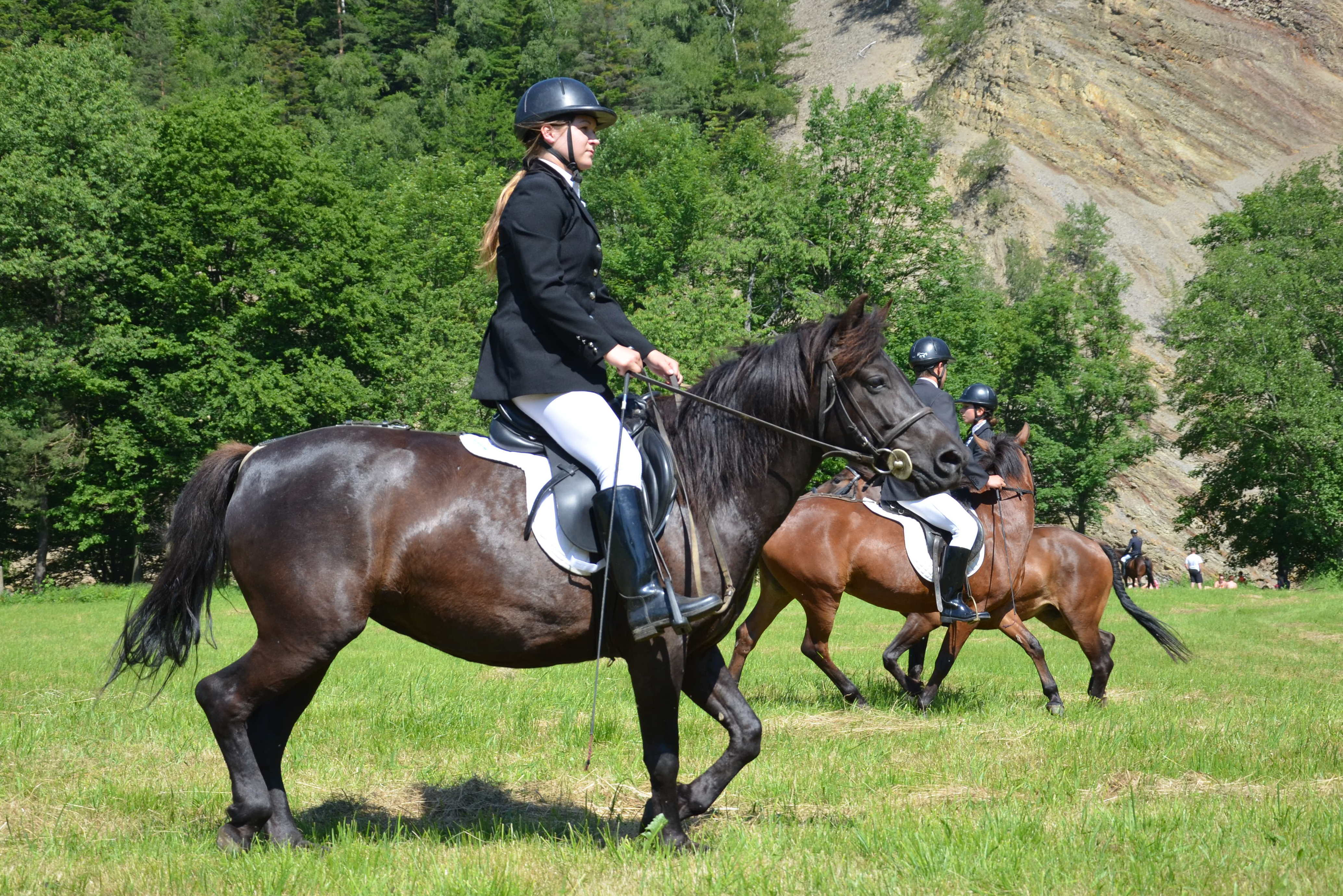 Reiten auf den Huzulen Pferden, Rudawka Rymanowska